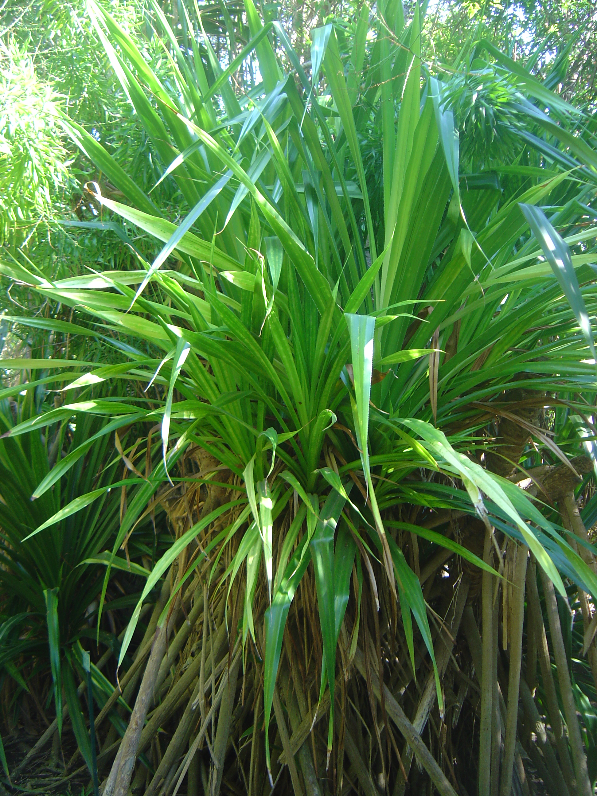 Photograph taken at the Jardin d'Éden botanical park, Saint-Gilles les Bains (commune of Saint-Paul), Réunion Island (Indian Ocean, a part of the French Republic).